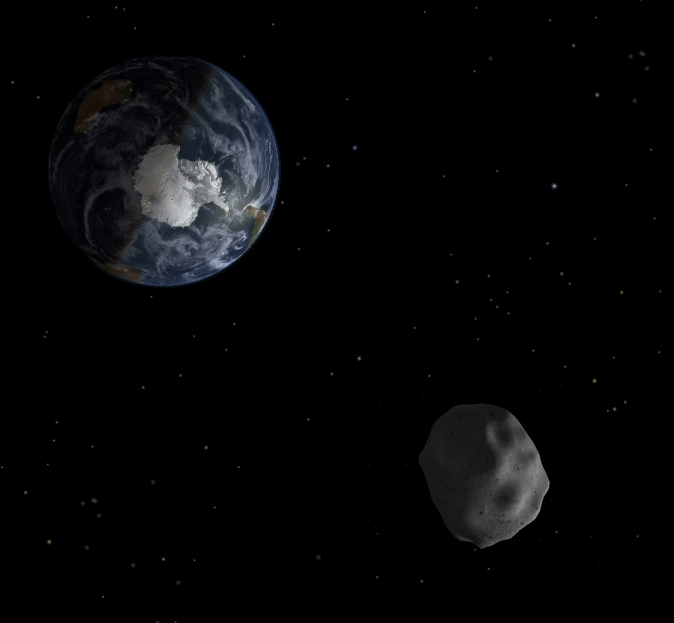 Diagram of asteroid 367943 Duende (2012 DA14).